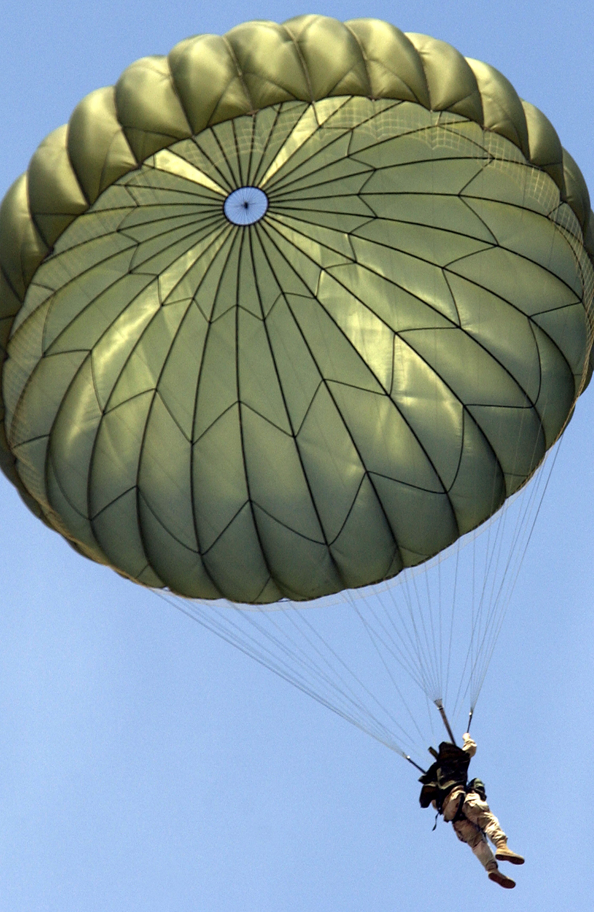 An Army paratrooper from the 82nd Airborne Division glides down to earth after jumping from an Air Force C-130E Hercules aircraft over Drop Zone Sicily at Fort Bragg, N.C., during Joint Forcible Entry Exercise on April 6, 2005. The exercise is a U.S. Army and Air Force airdrop exercise designed to properly execute large-scale heavy equipment and troop movement.